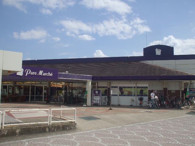 pare marche Nishi-kani shop